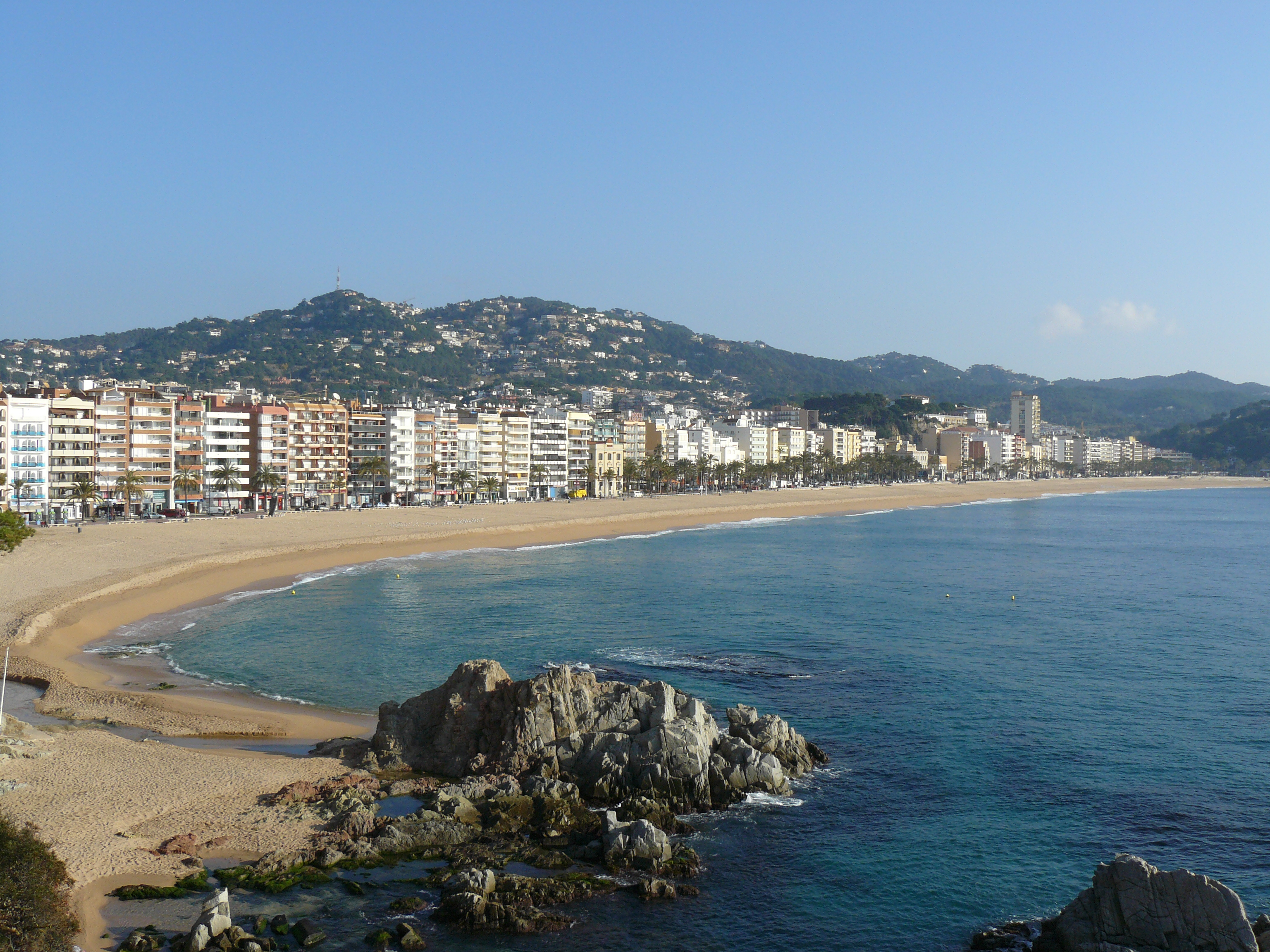 Lloret de Mar beach, Catalonia, Spain.